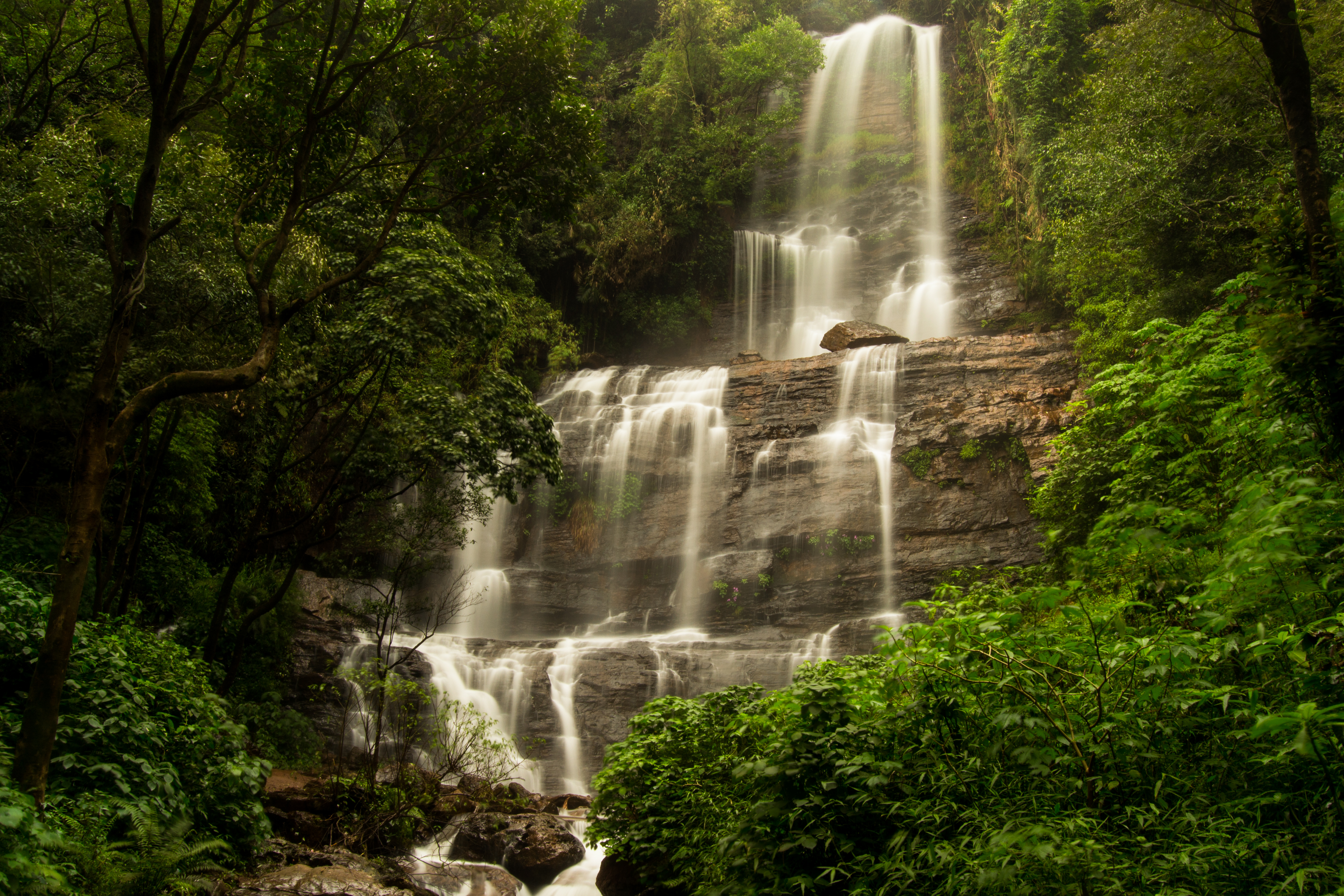 Sagir Ahmed or Dabdabe falls which is located in Chikkamagaluru district of Karnataka